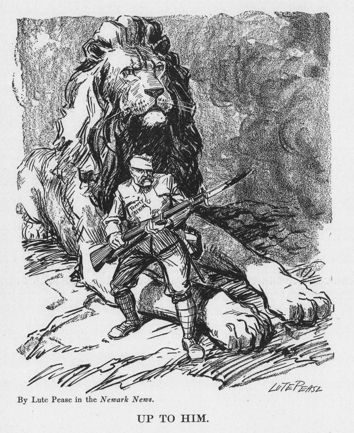 "Up to Him" Great Britain’s part in the war was not confined to controlling the seas. Her troops together with those of her many colonies held a good part of the fine on the western front. The staunchness of their defensive action is evidenced by Field Marshal Haig’s famous message to his men on April 13 , 1918: “Every position must be held to the last man. There must be no retirement. With our backs to the wall and believing in the justice of our cause, every one of us must fight to the end.”